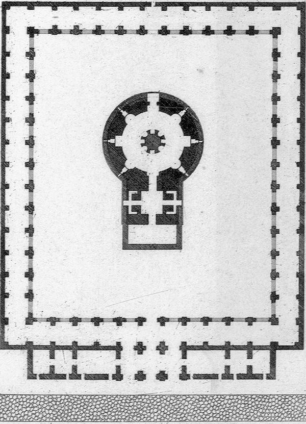 Mausoleum of Romulus plan Luigi Canina, Gli Edifizi di Roma Antica...